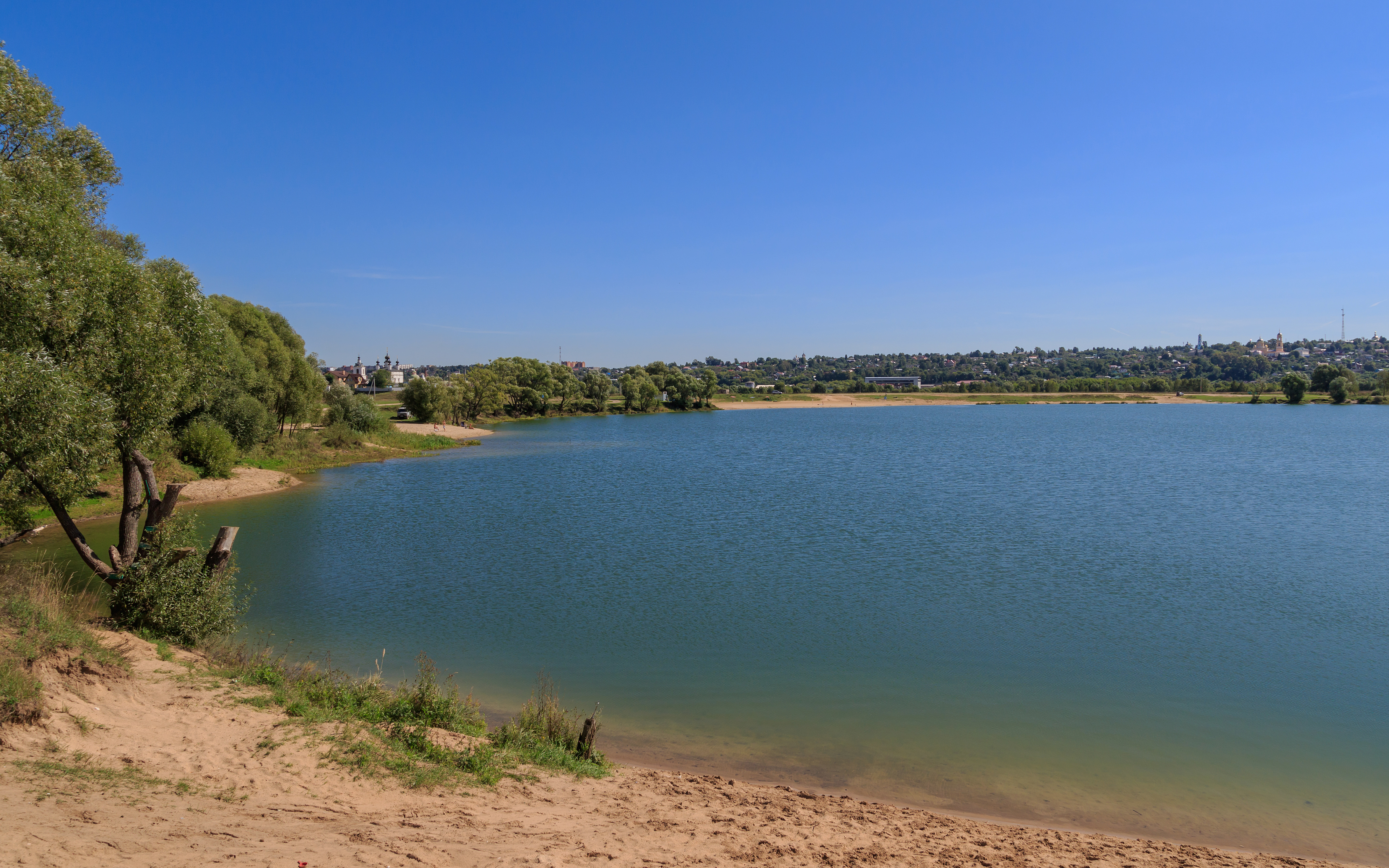 Quarry pond near Belopesotsky Convent in Stupino. Moscow Oblast, Russia.